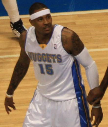 Carmelo Anthony of the Denver Nuggets